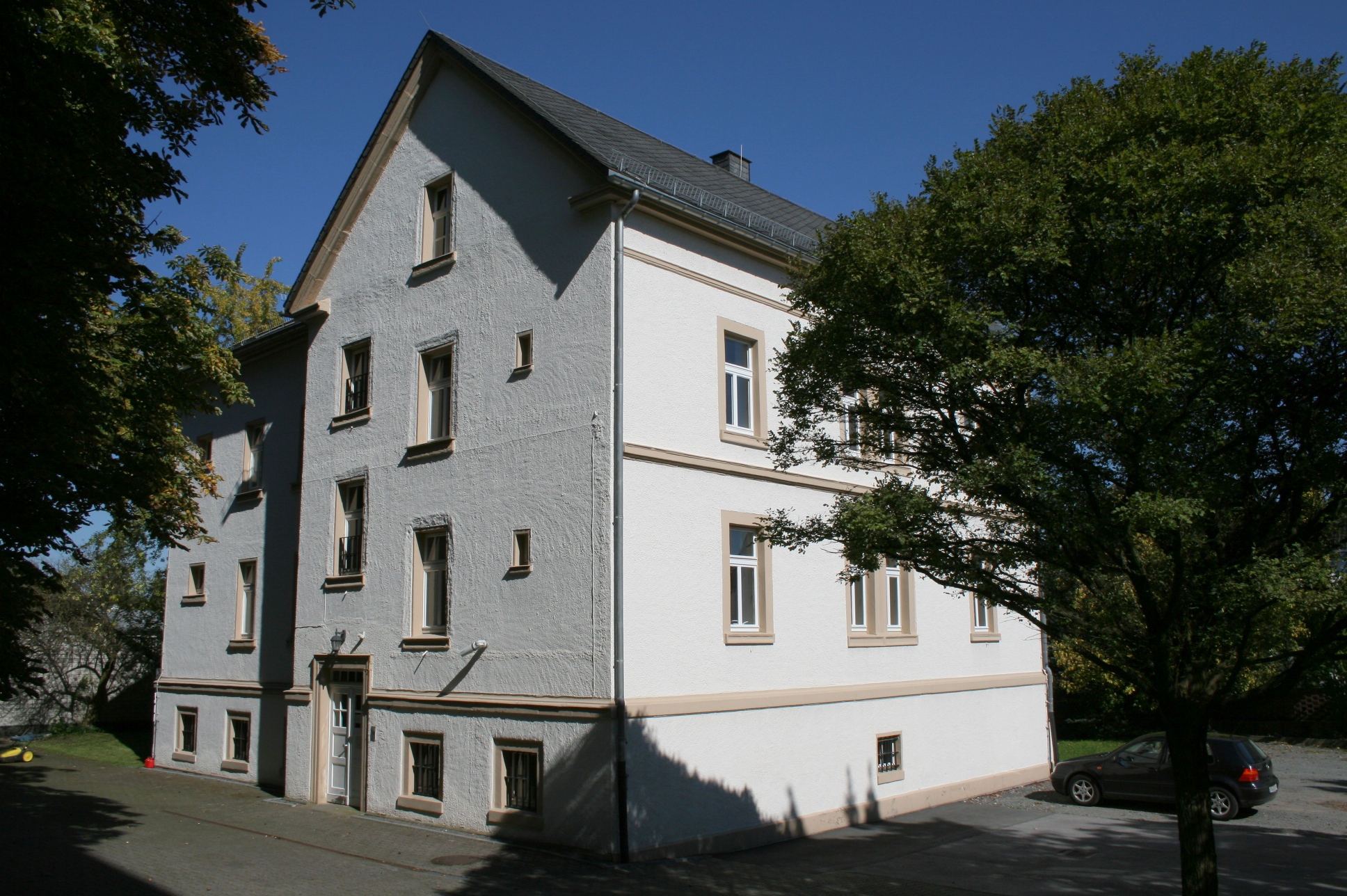 Amtsgericht Brilon, Bahnhofstraße 32 in Brilon. This image shows a heritage building in Germany, located in the North Rhine-Westphalian city Brilon.